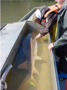 A Gulf sturgeon (Acipenser oxyrinchus desotoi) in a sampling tank. Picture taken on Florida's Choctawhatchee River during a sampling trip of the Panama City Ecological Service Field Office biologists. Thumbnail was labeled "Karen Seiser checking for previous tagging".